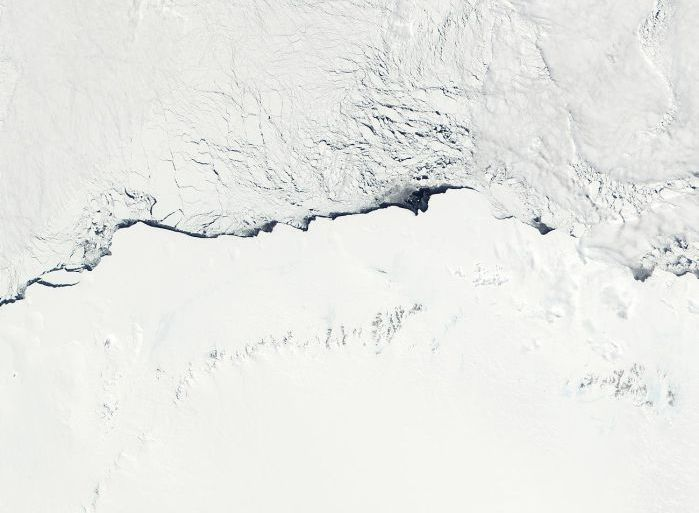 The central Dronning Maud Land in Antarctica